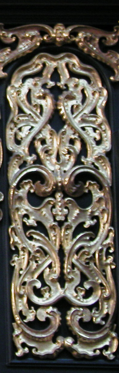 Ornament from choir stalls in Blessed Virgin Mary's Church Kraków (Poland)